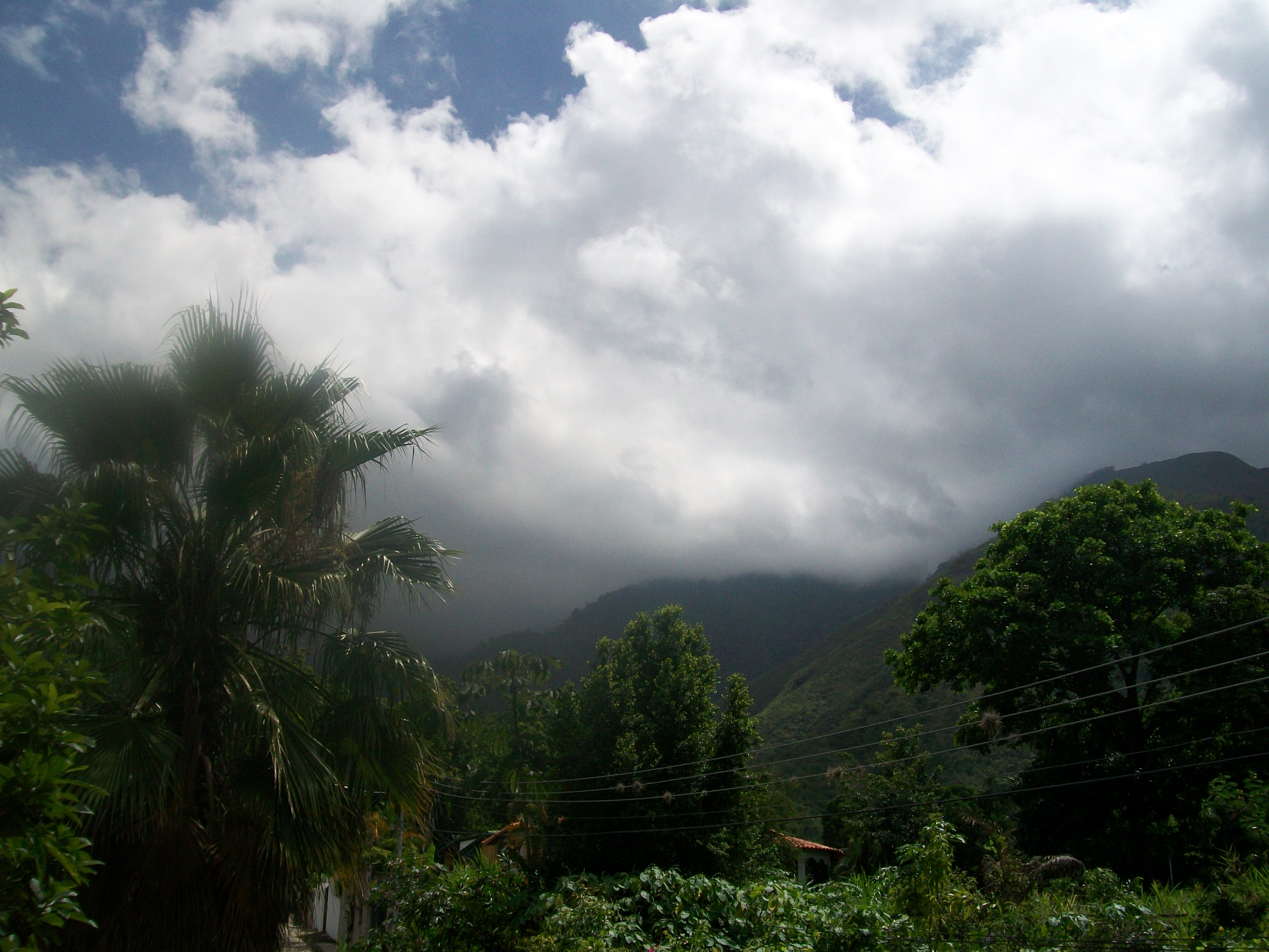 Inhabited south side of the Henri Pittier National Park, Maracay, Venezuela.